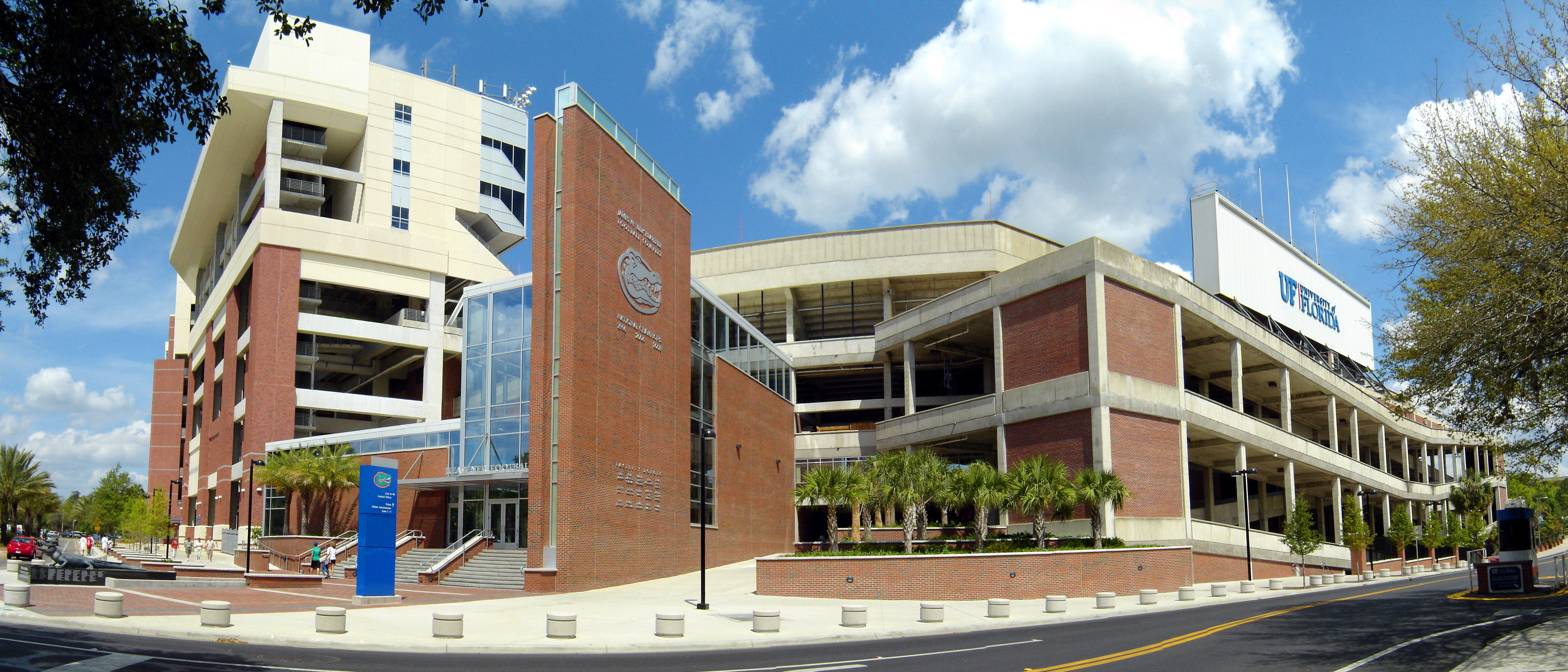 The southwest corner of Ben Hill Griffin Stadium, University of Florida, Gainesville, Florida. Panorama consisting of 15 photos, stitched pretty well with Hugin.